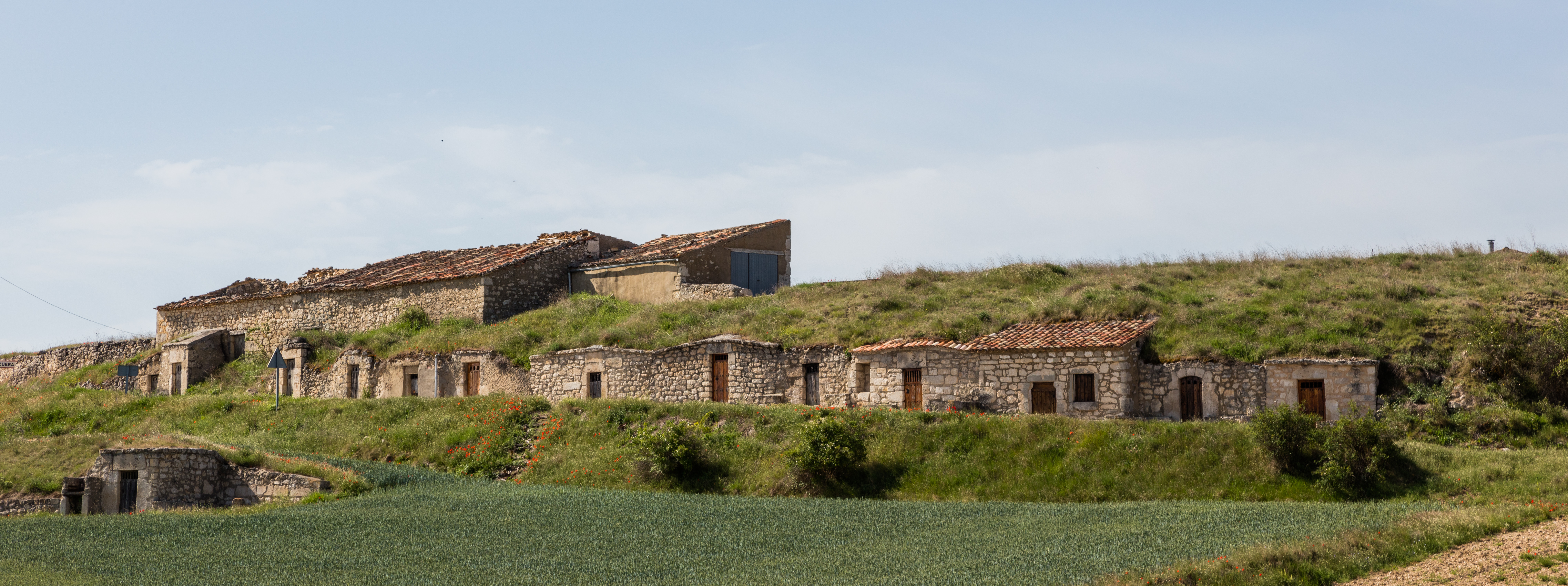 Bodegas, Morcuera, Soria, Spain